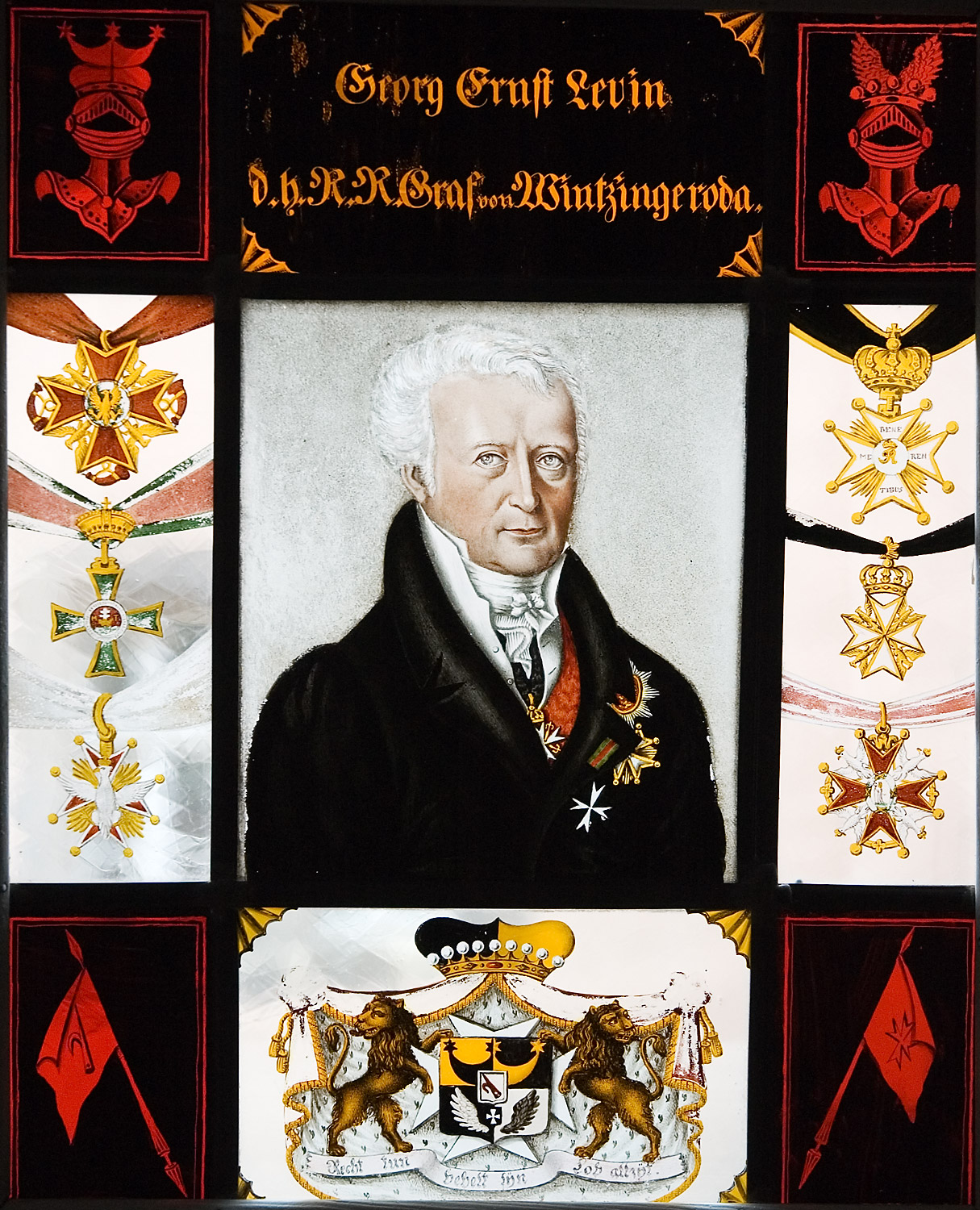 Castle Bodenstein, Chapel, glass painting, Georg Ernst Levin von Wintzingerode, Germany